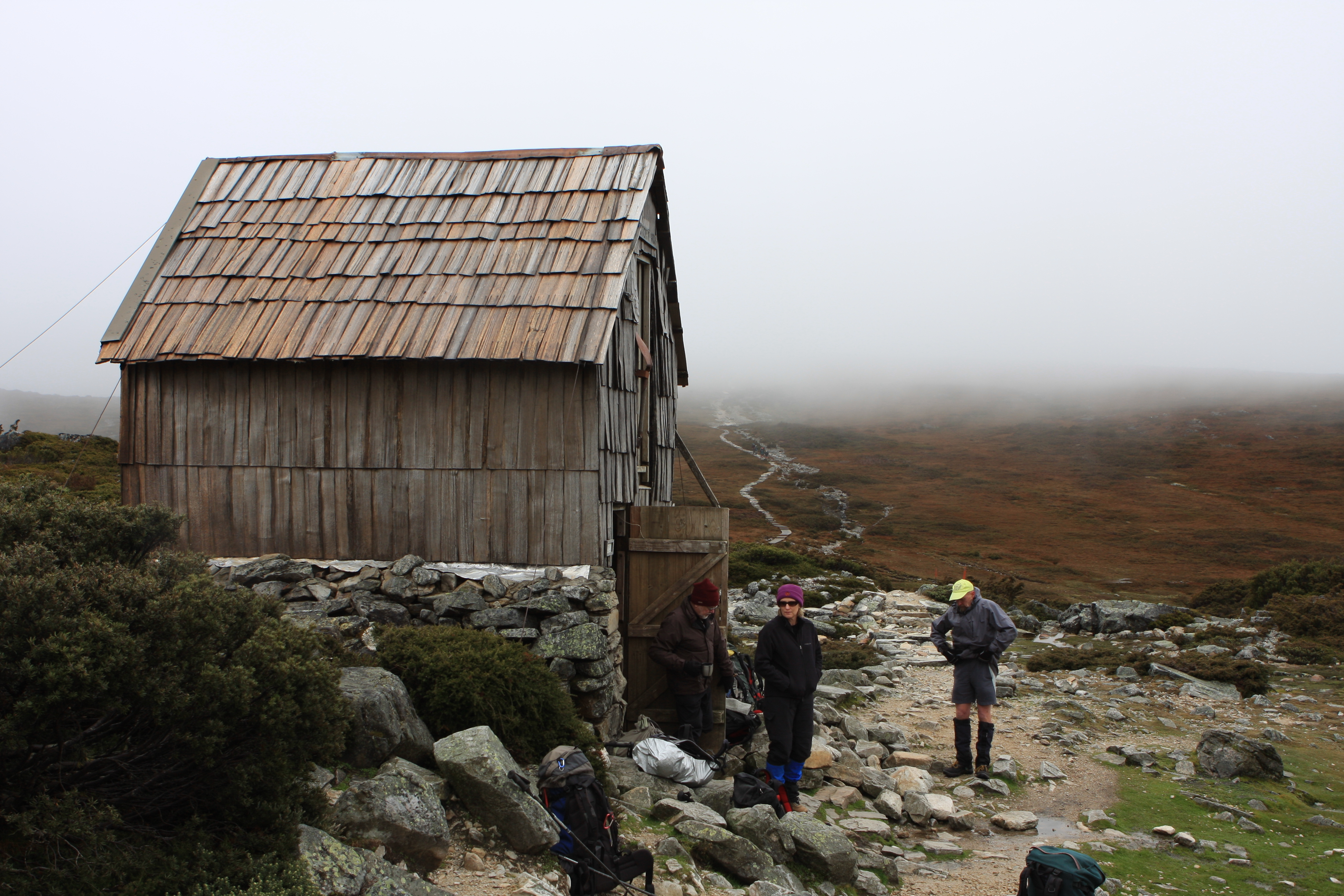 Day 1 of the Overland Track We had a cold, windy walk through some beautiful alpine terrain traversing alongside Cradle Mountain. A warm cup of tea at this hut was a most welcome respite. Cradle_Mountain on wikipedia Australia oz2009 039